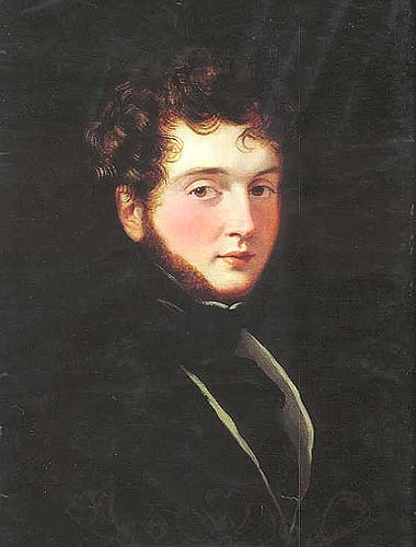 Alfred Guillaume Gabriel